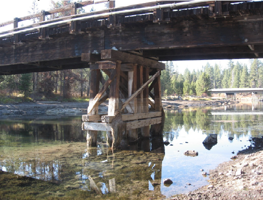 General Patch Bridge in Oregon’s Deschutes National Forest (viewing south from the east side of the Deschutes River). The bridge was built by Army Corps of Engineers in 1944 during the U.S. Army’s “Oregon Maneuver” combat training exercise. The bridge was named in honor of General Alexander M. Patch who led the Oregon Maneuver. The Forest Service demolished the structure in 2008.